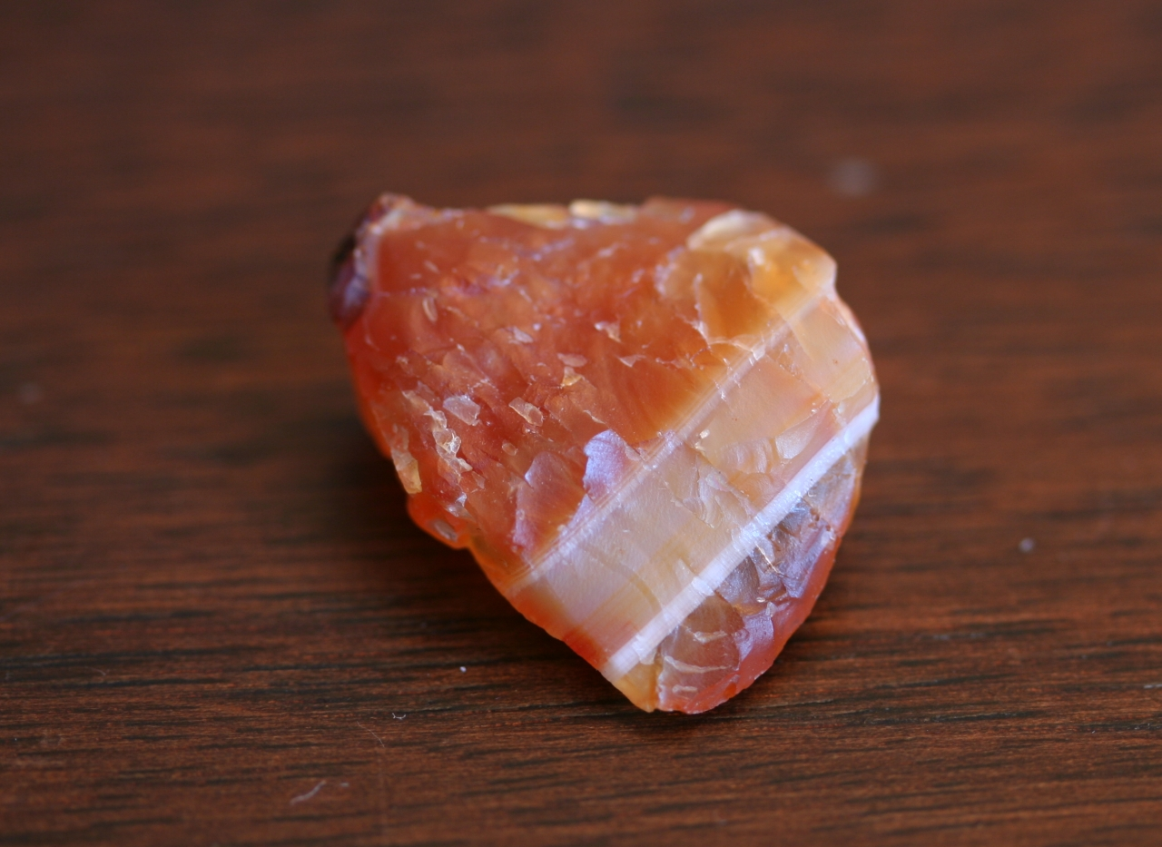 Carneool